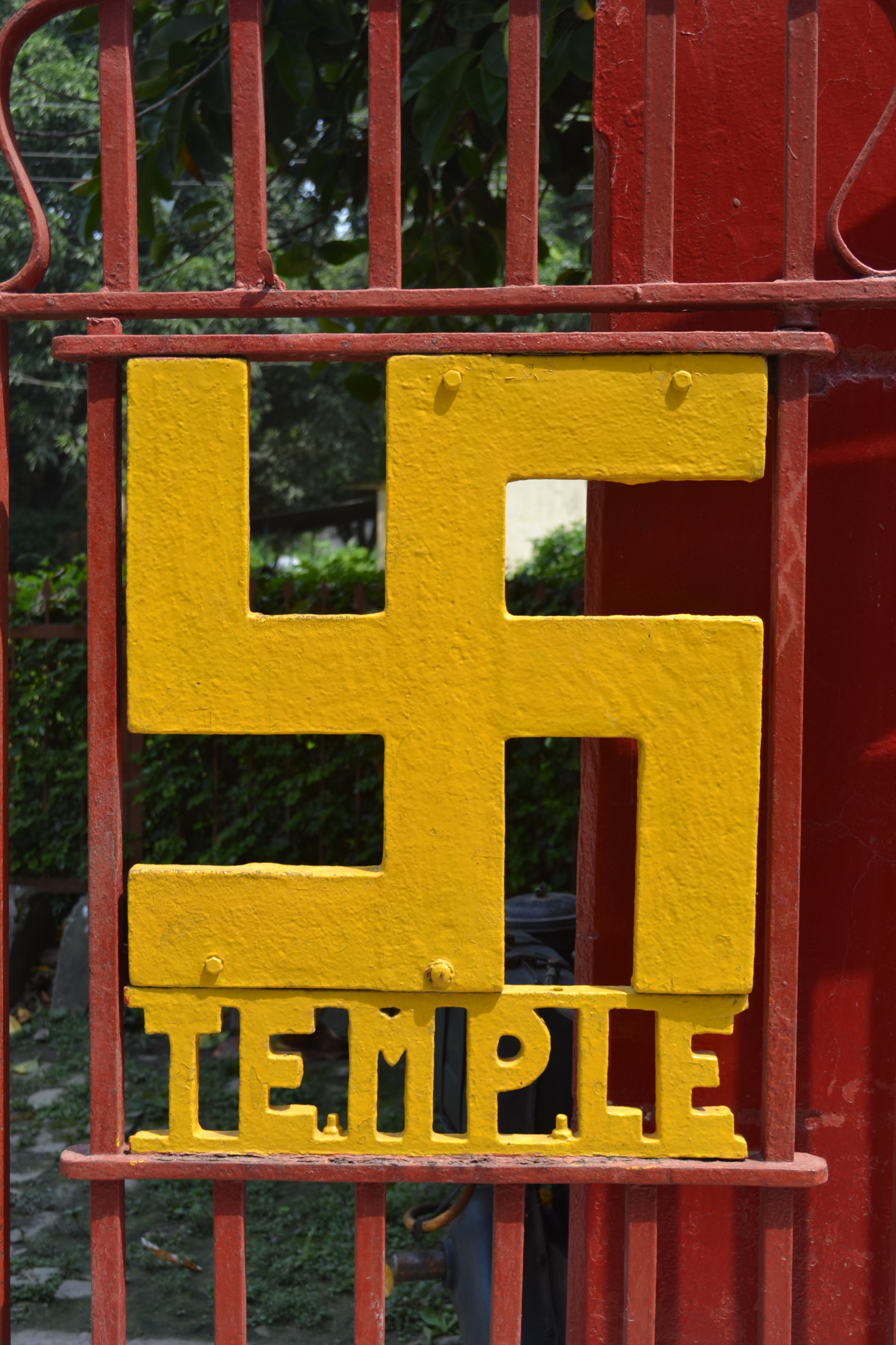 Swastika is a symbol of the auspicious, good, well being, a welcome sign, a good wish in Indian religions.